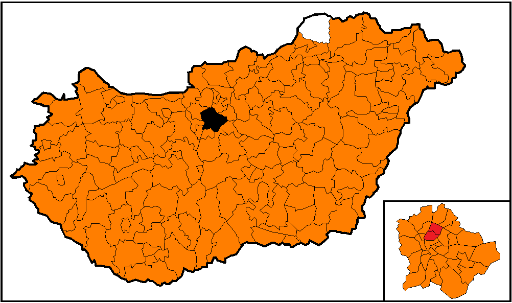 Election Results in the single-seat constituencies; Hungary 2010 ██ = Fidesz (171) ██ = MSZP (2) ██ = Independent (1)